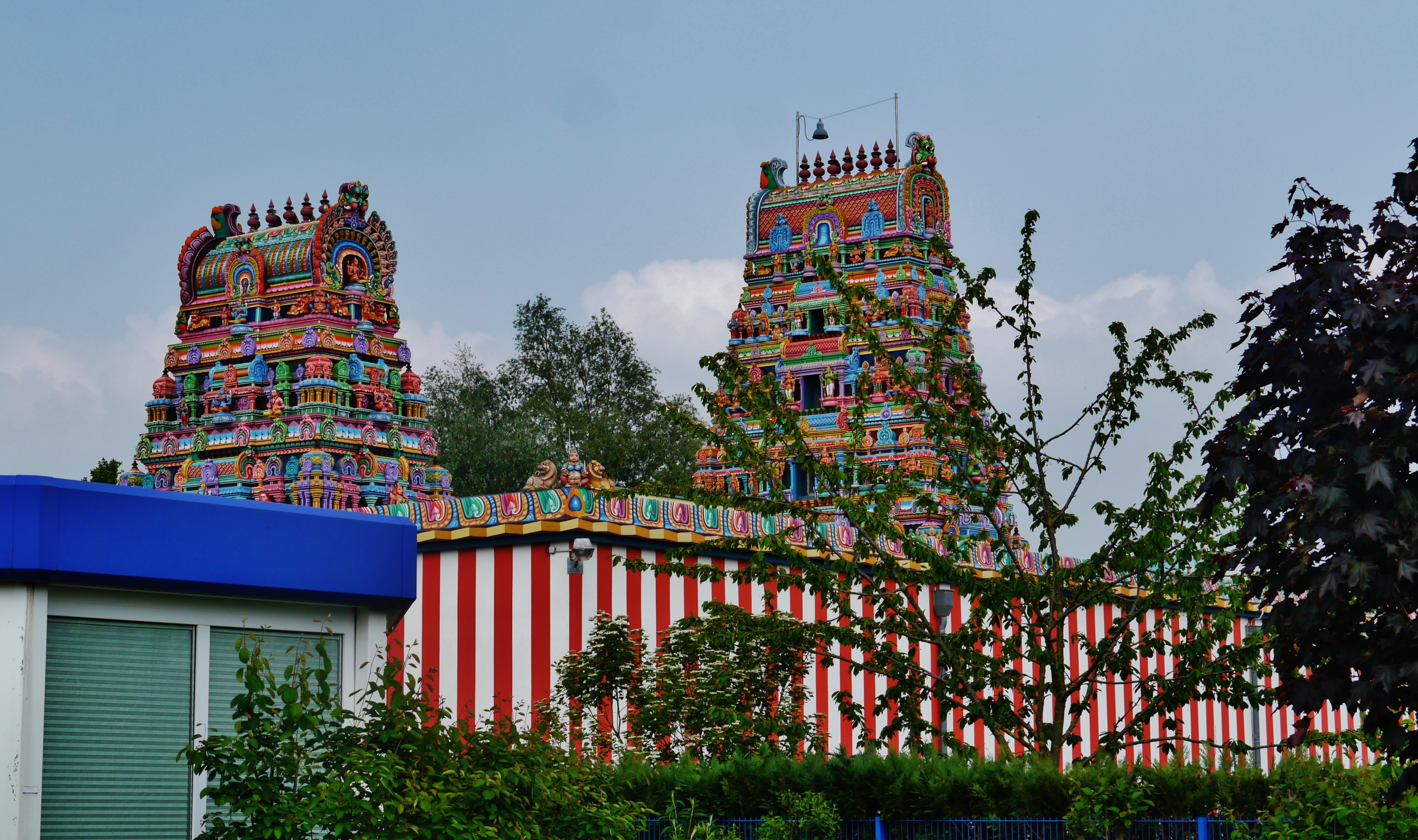 Sri Kamadchi Ampal Hindu Temple, Hamm, Federal State of North Rhine Westphalia, Germany